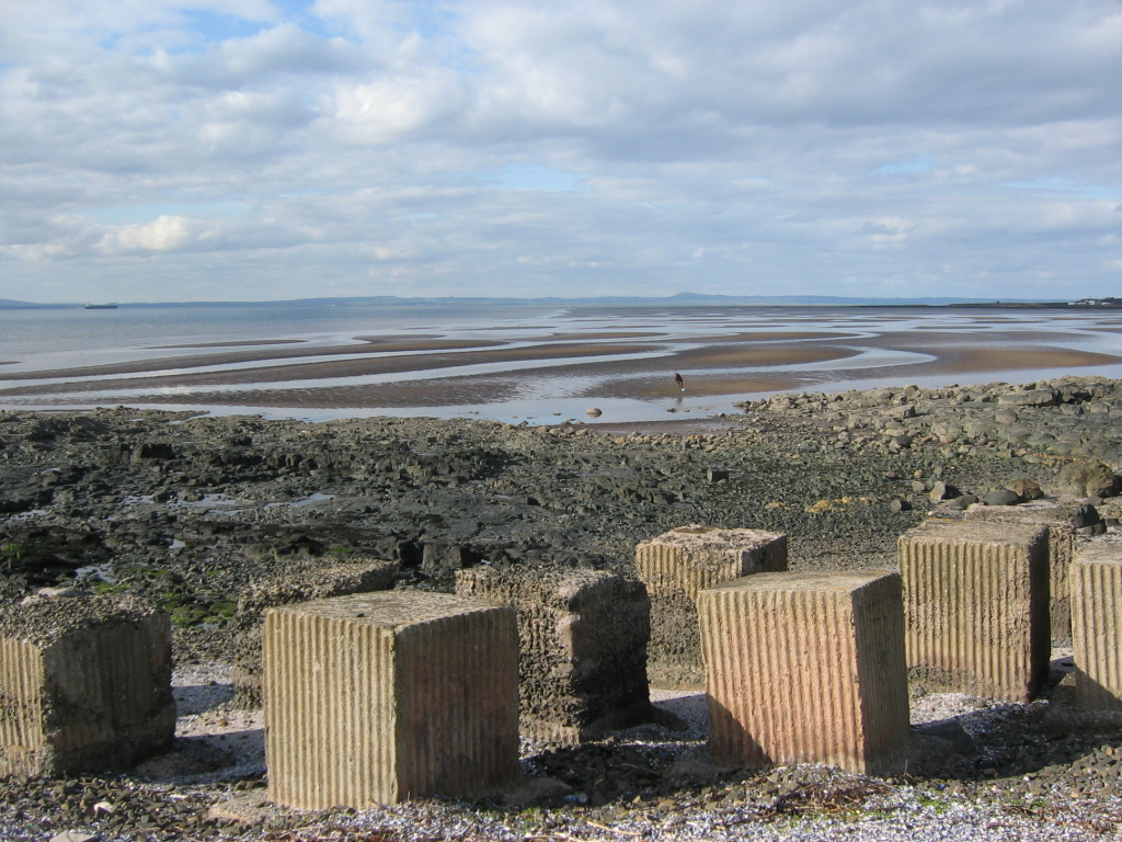 Longniddry Bents, East Lothian, Scotland